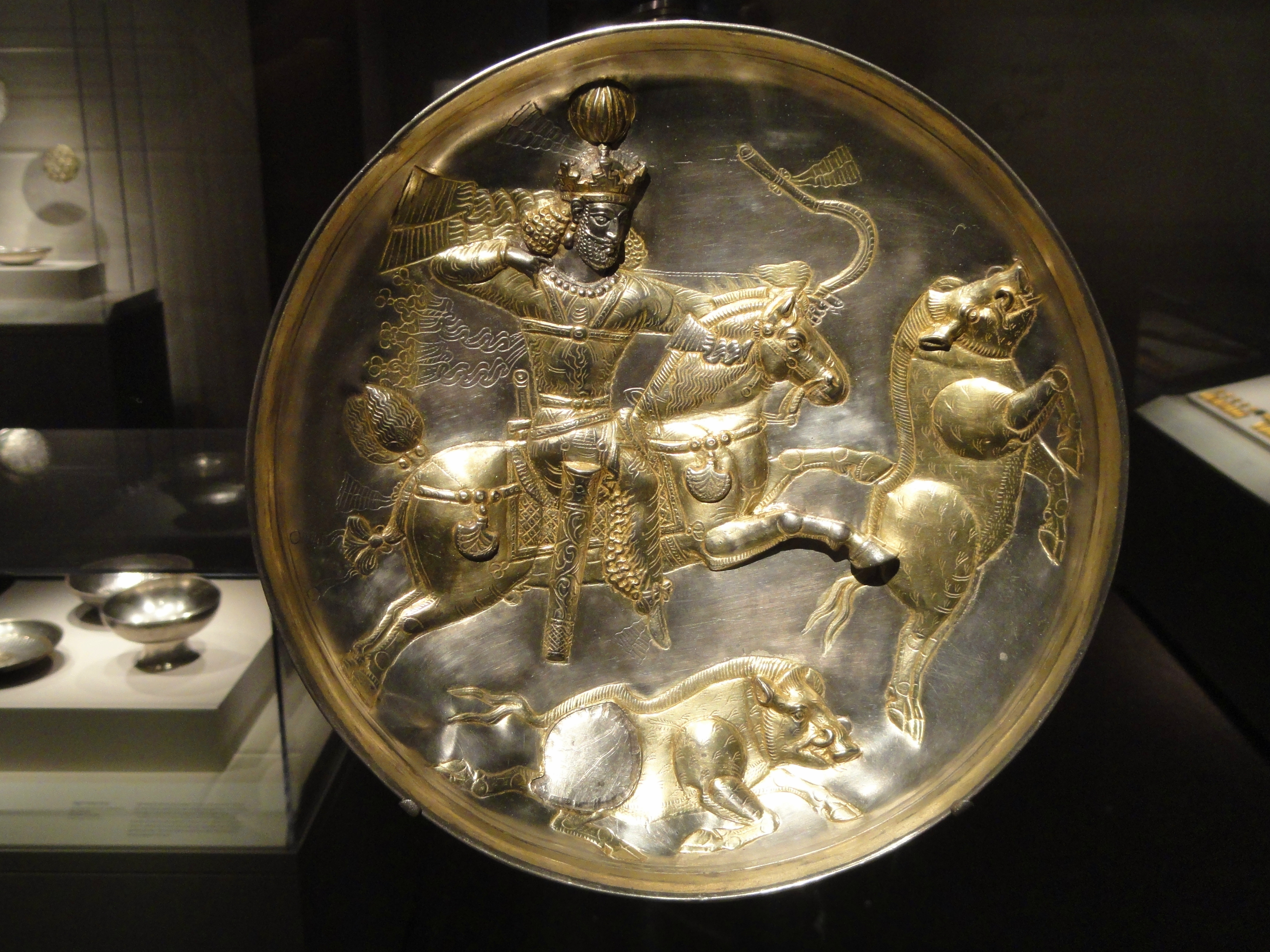 Exhibit in the Arthur M. Sackler Gallery, Washington, DC, USA. This artwork is old enough so that it is in the public domain.